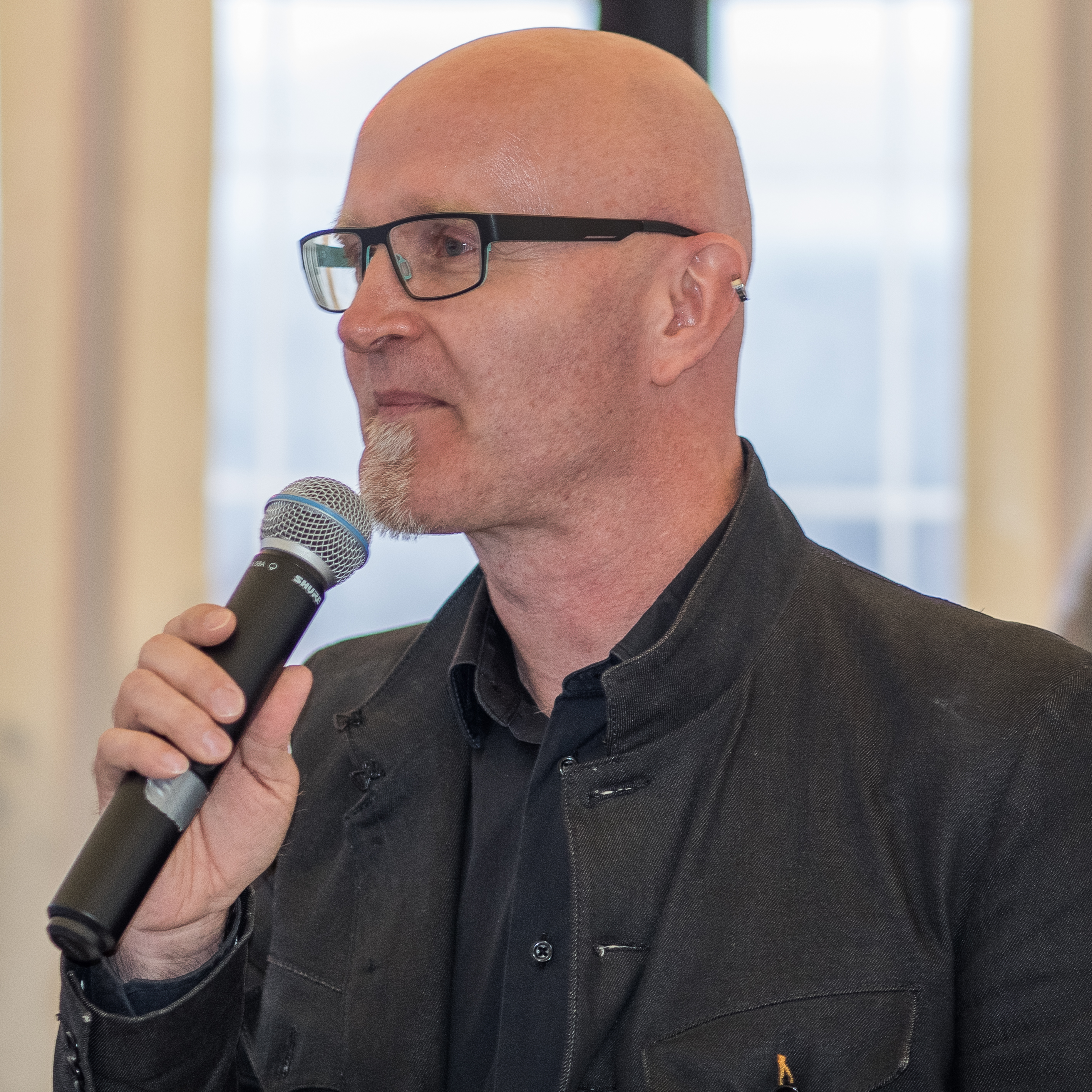 Henrik Rongedal July 2014